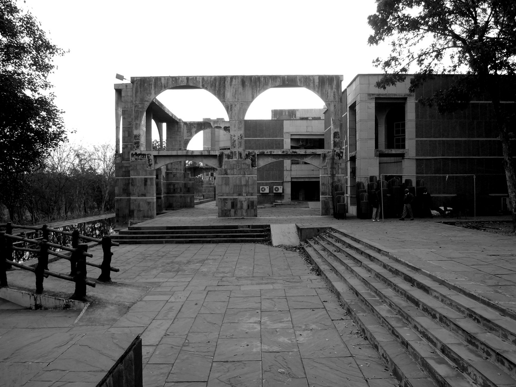 indian institute of forest management